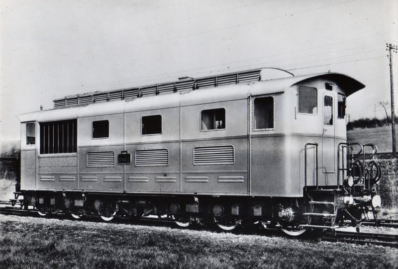 Metric gauge Diesel locomotive CPC 6 XADE 2 of the Compagnie des Phosphates de Constantine, then the CFA, built by Marine-Homécourt in 1937. They became in 1949 locomotives 060 DB 201 and 202 of Chemins de Fer Tunisiens.